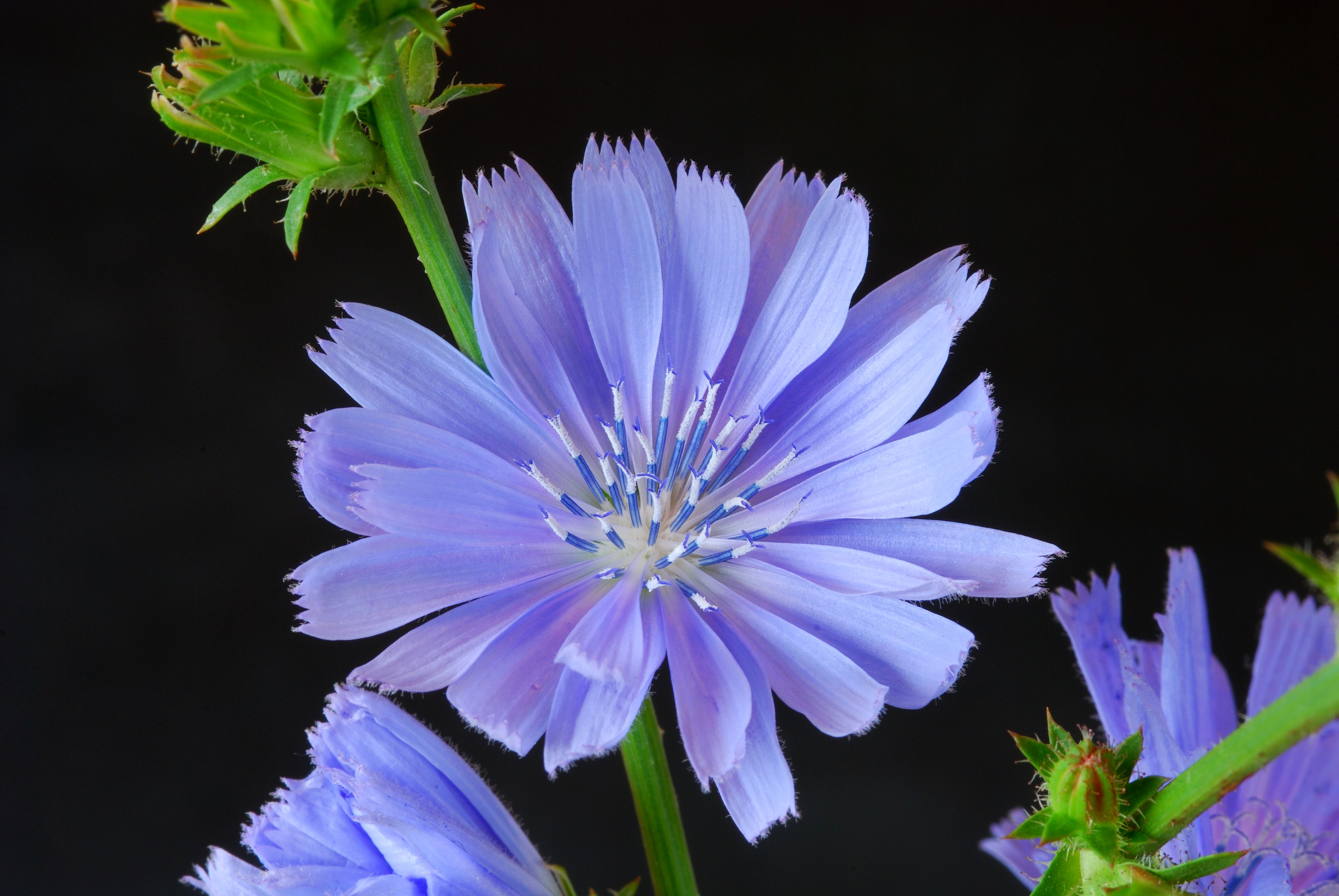 Common chicory